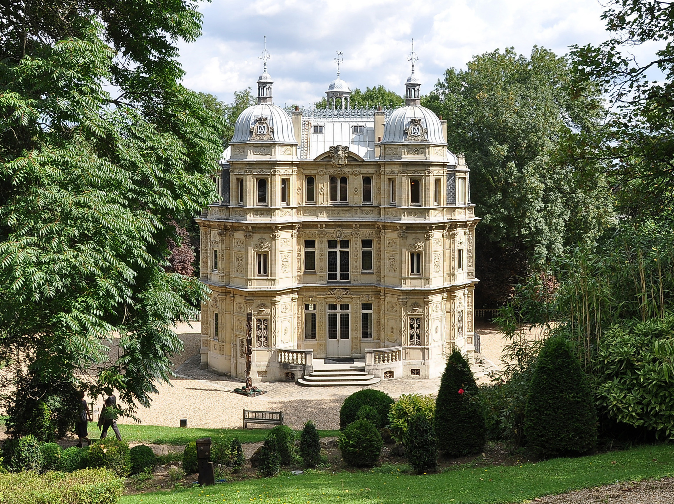 Château de Monte-Cristo of the famous writer Alexandre Dumas in Le Port-Marly, Yvelines, France.